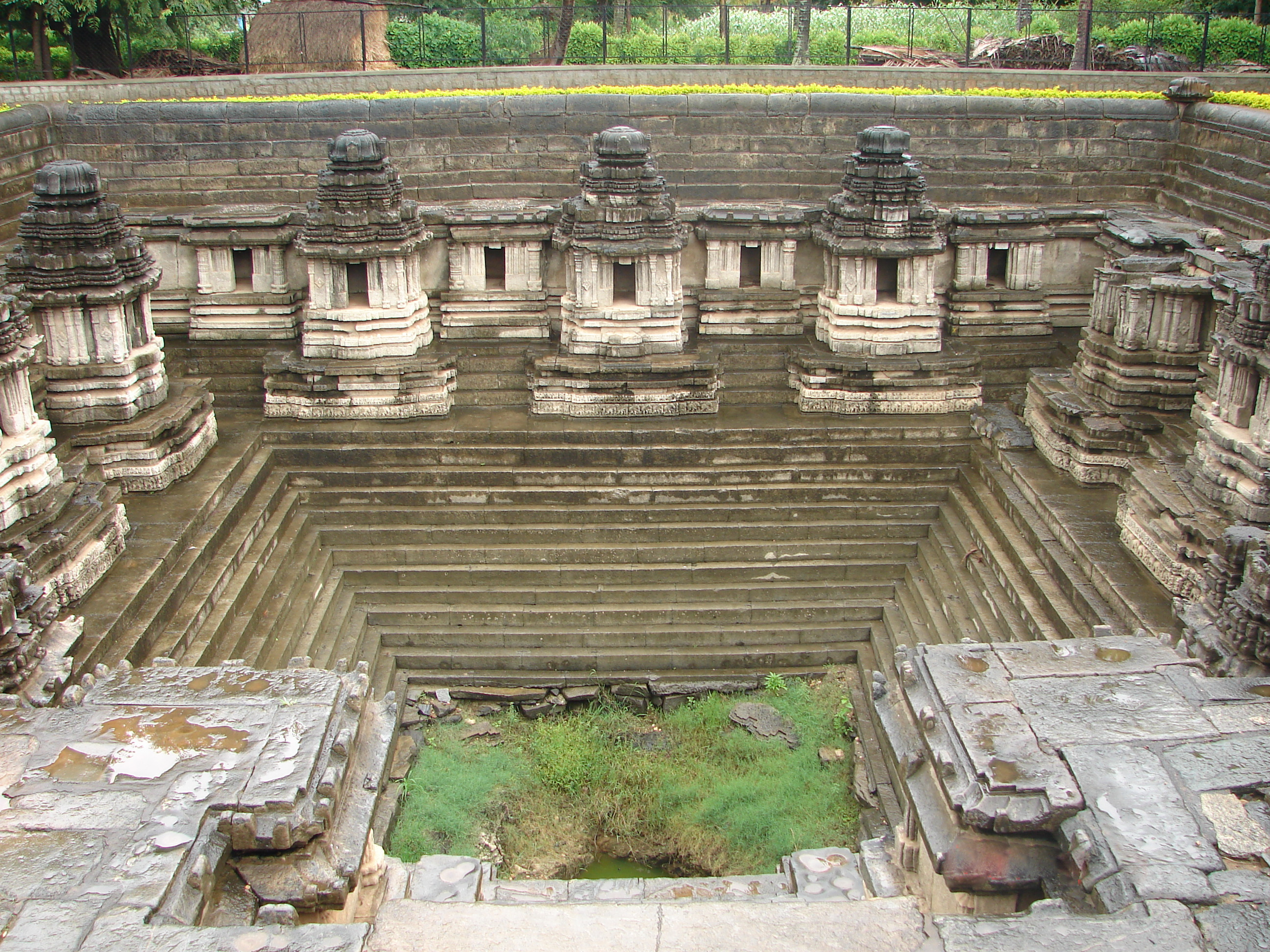 Temple tank built by the Hoysala Empire kings at Hulikere, Hassan district, Karnataka state, India.